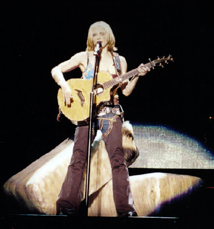 Picture taken at the concert in 2001